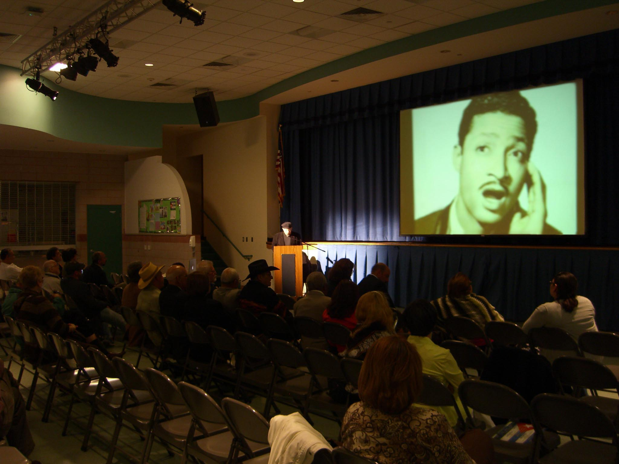 A May 12, 2011 multimedia lecture on Cuban singer BennyMoré at José Martí Freshman Academy in the heavily Cuban American community of Union City, New Jersey. At the podium is lecturer Armando Lopez. Photographed by Luigi Novi. This photo is not in the public domain. It may, however, be used, modified and published for any purpose, free of charge, only if the photographer is properly credited, either by linking the photograph to this page, or with an easily visible credit to the photographer placed near the photo in each instance in which it is used. (See licensing information below.) Publication of this photo without this proper attribution constitutes copyright infringement. If you have any questions, you can contact me on my Wikipedia Talk Page.